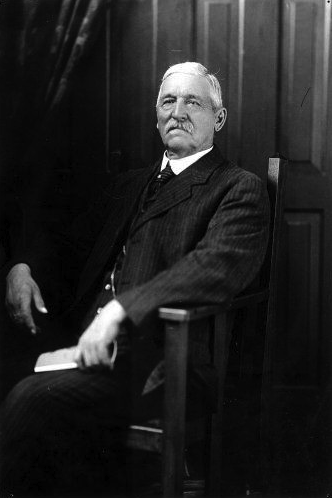 portrait photo of Grant Marsh, Montana riverboat captain. (source had historical society flag on it, but image is out of copyright, thus it was trimmed out for our purposes here)